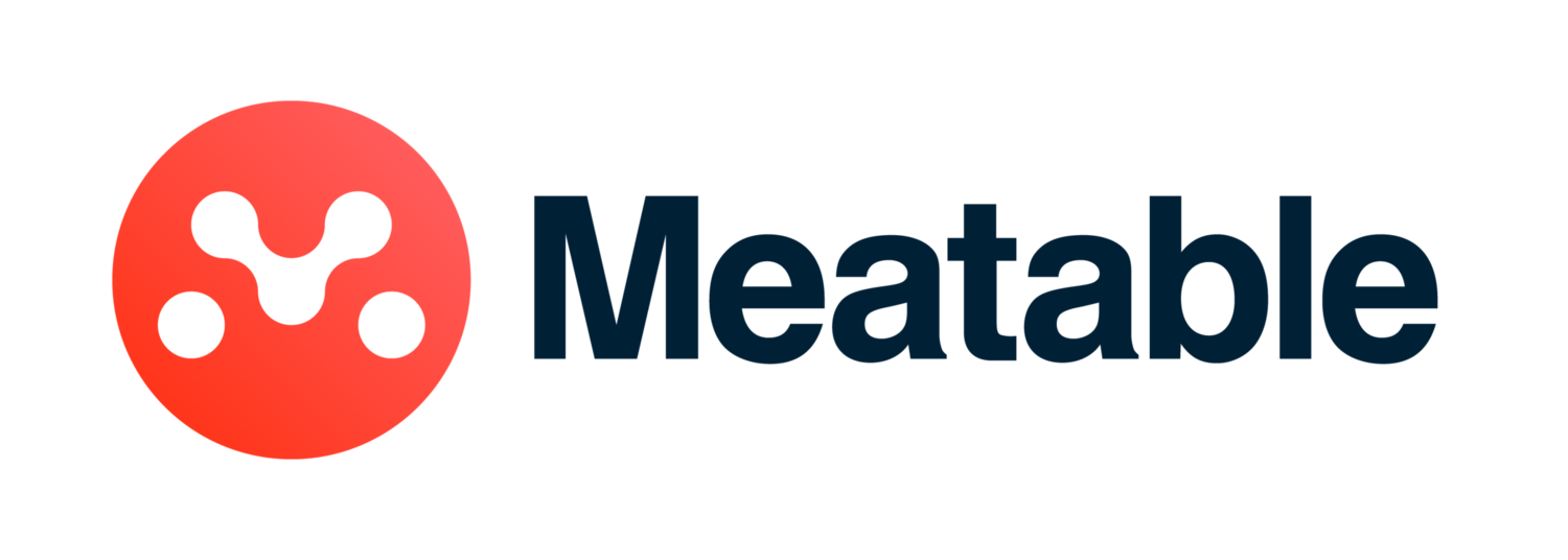 Logo of the Dutch company Meatable, founded in 2018 in Delft, that develops cultured meat.